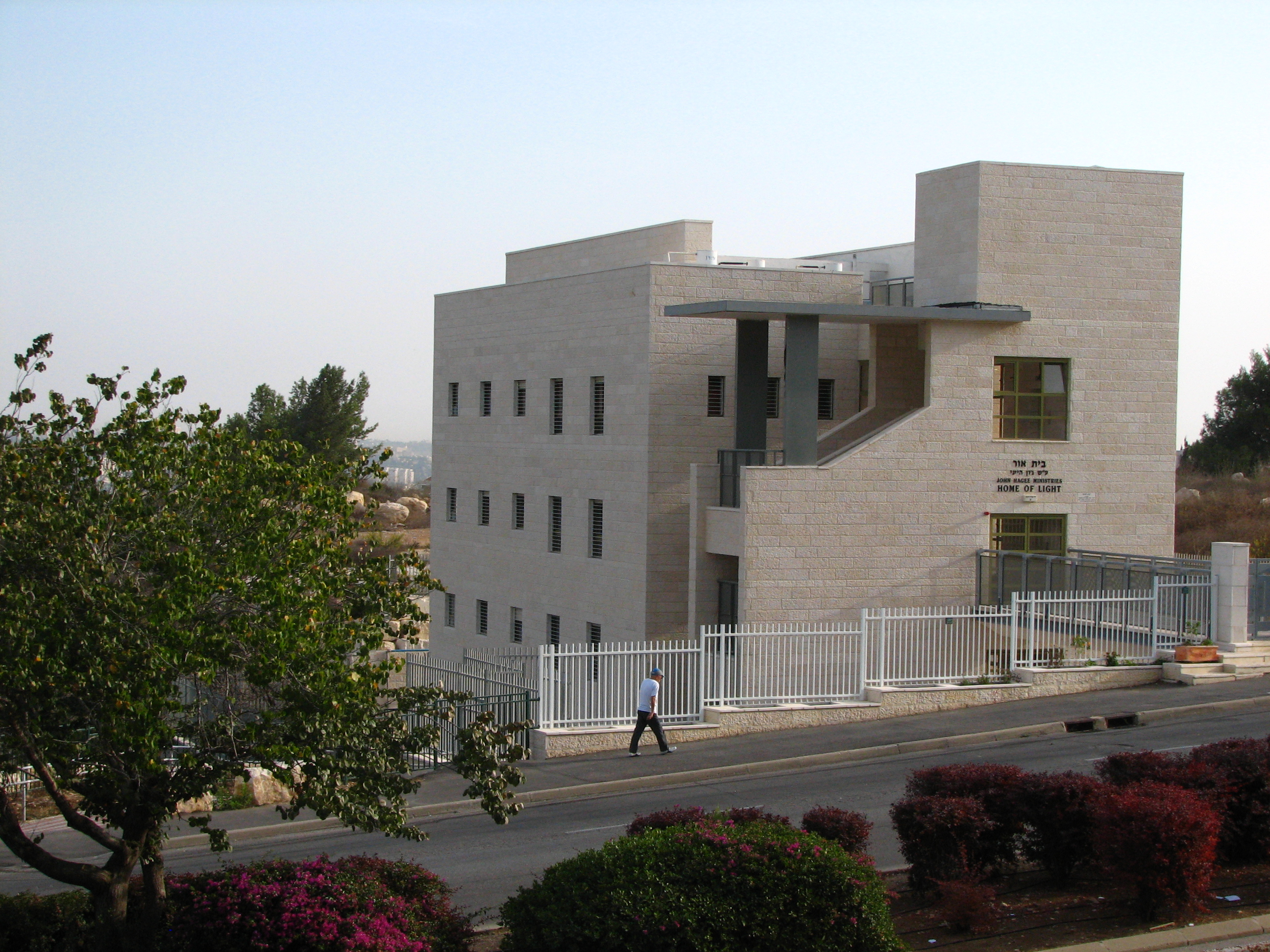 Beit Or, Gilo settlement in southern Jerusalem